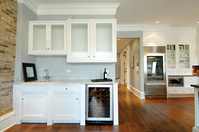 A wet bar adjoining a kitchen in a Chicago home.